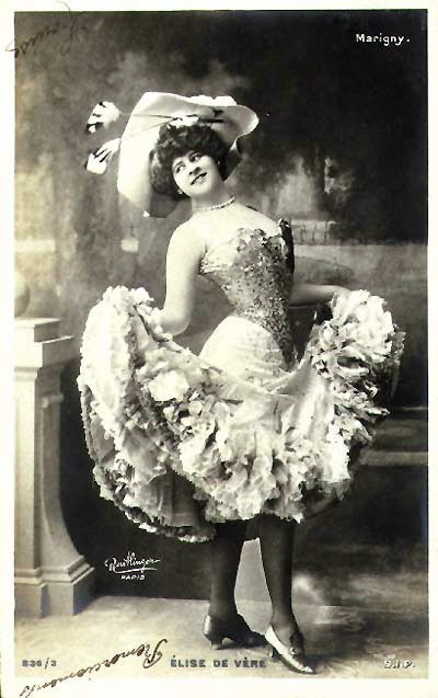 Elise de Vére, French Opera Star